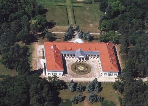 Vajta, Hungary, aerialphotgraphy